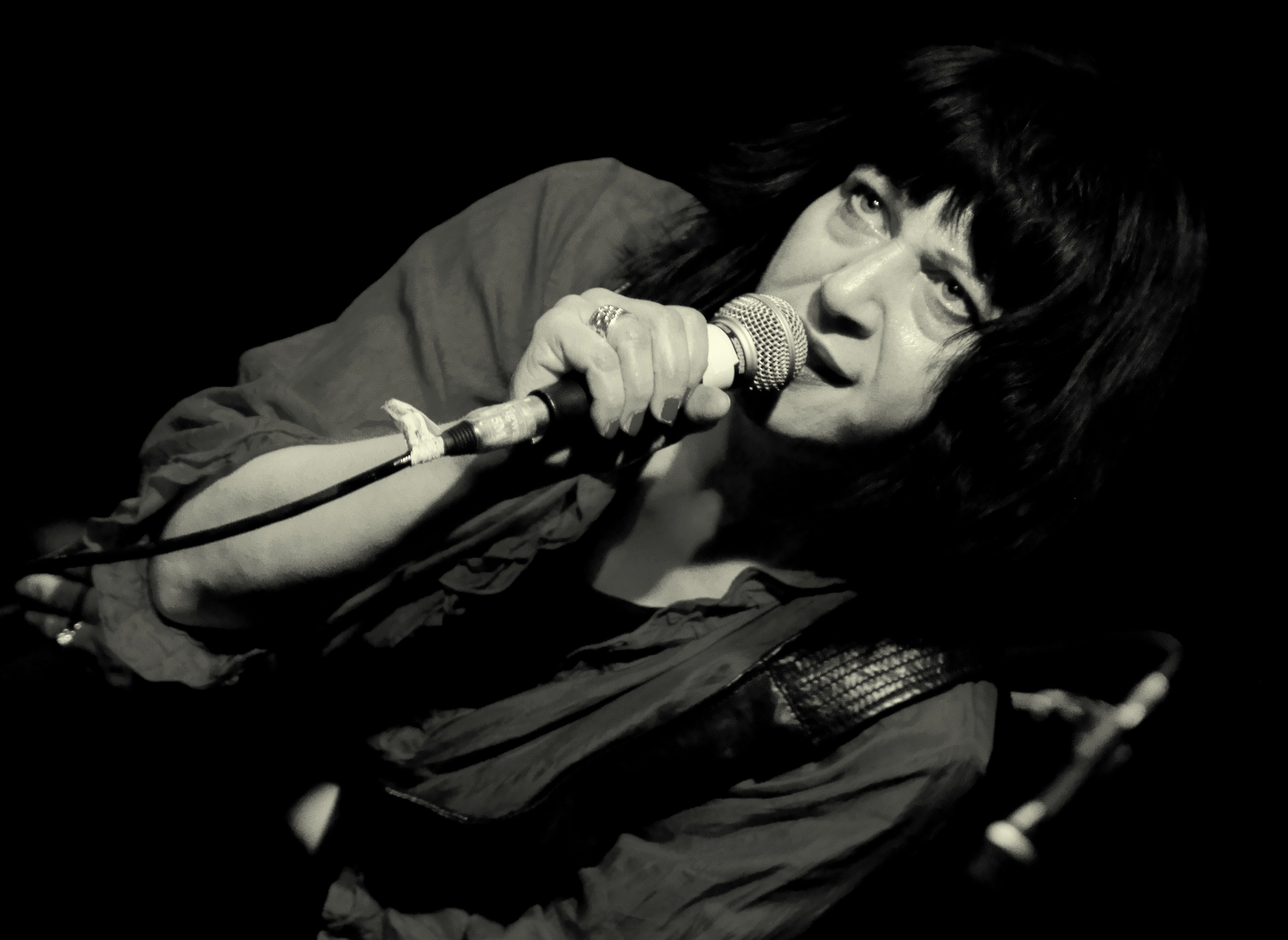 Lydia Lunch performing at the Continental, Preston, on Thursday the 16th of February 2012